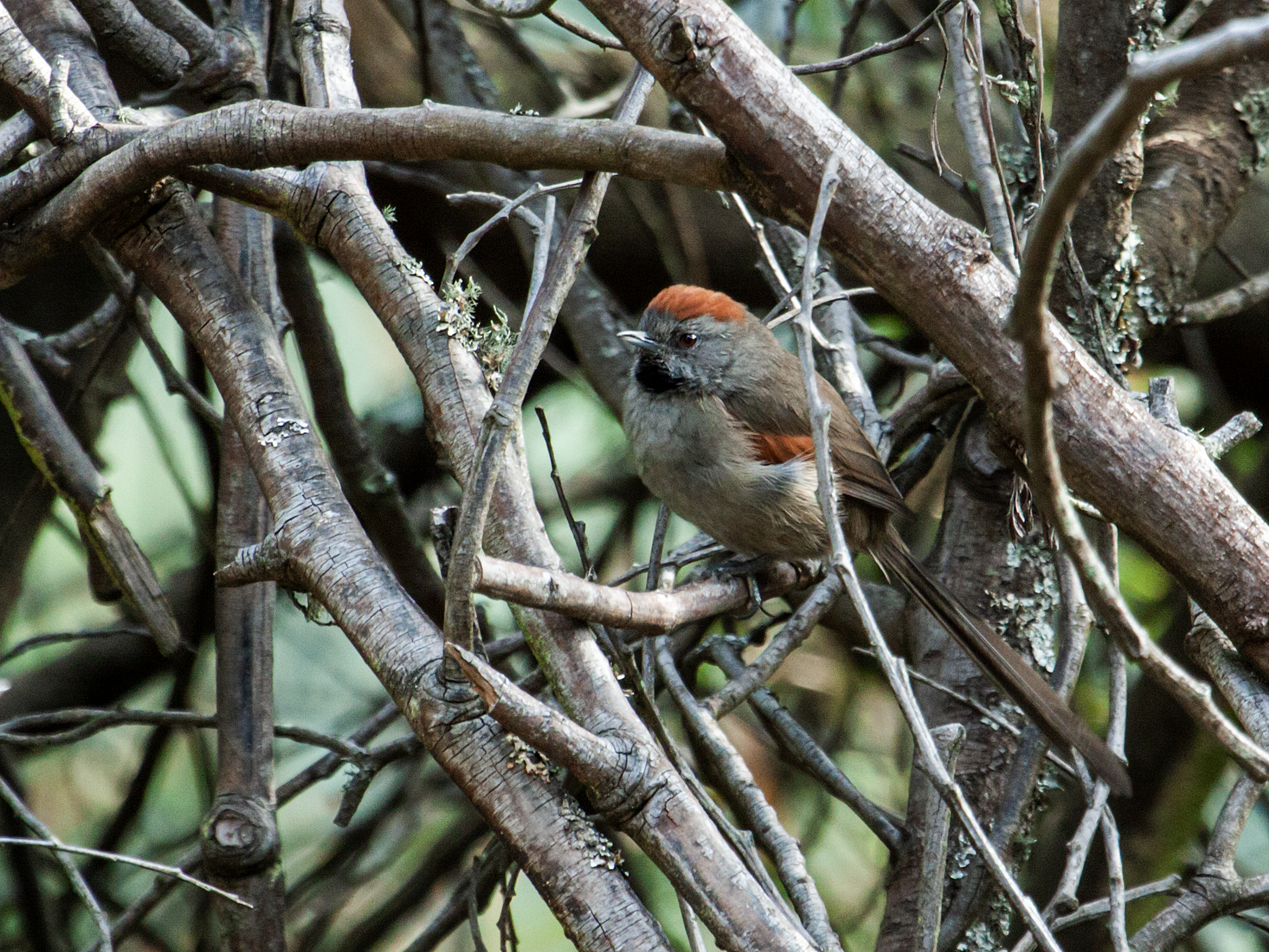 Silvery-throated Spinetail from Cerro de Guadalupe, Capital District, Colombia.